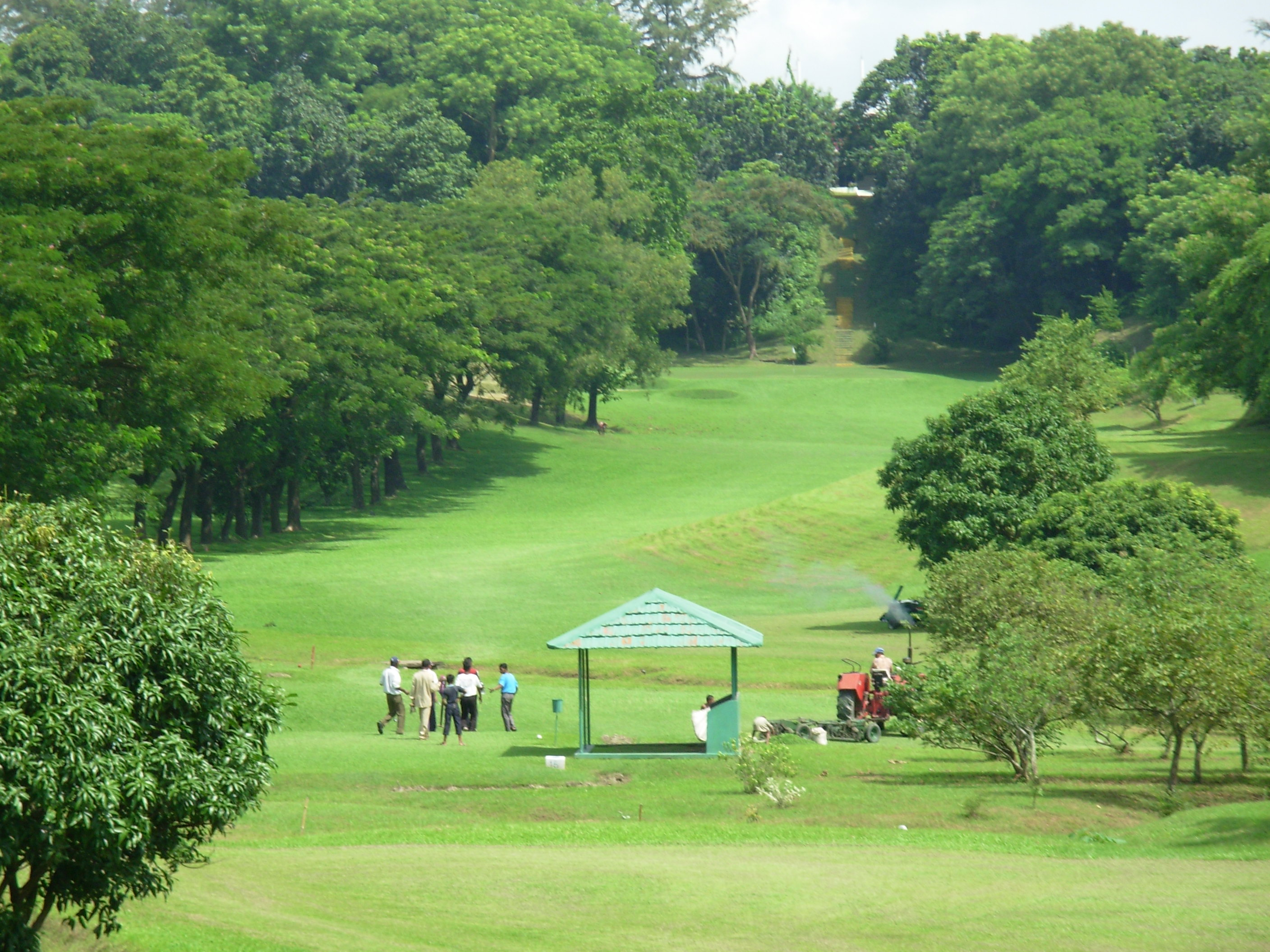 Batiary Golf Club Area , Chittagong